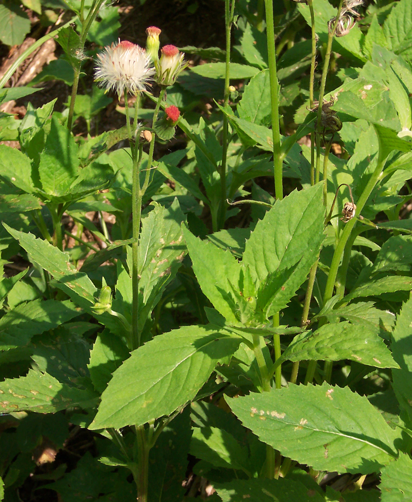 Crassocephalum crepidioides, habits. Jabranti, Kuningan, West Java.